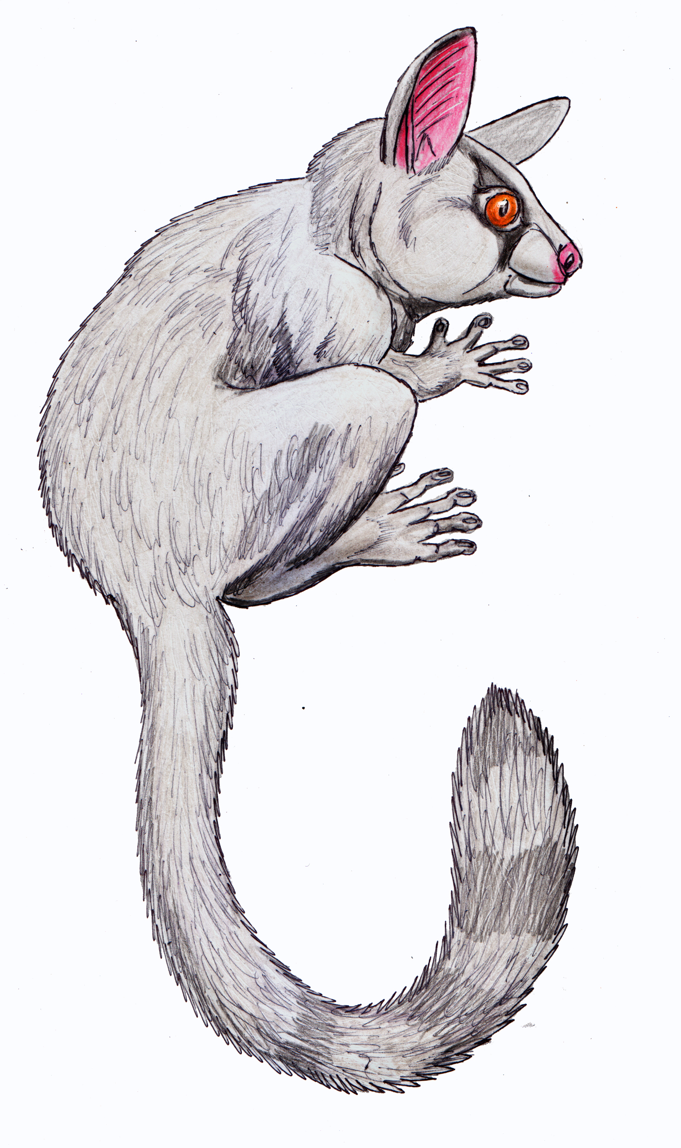 Teilhardina, from Early Eocene of North Hemisphere